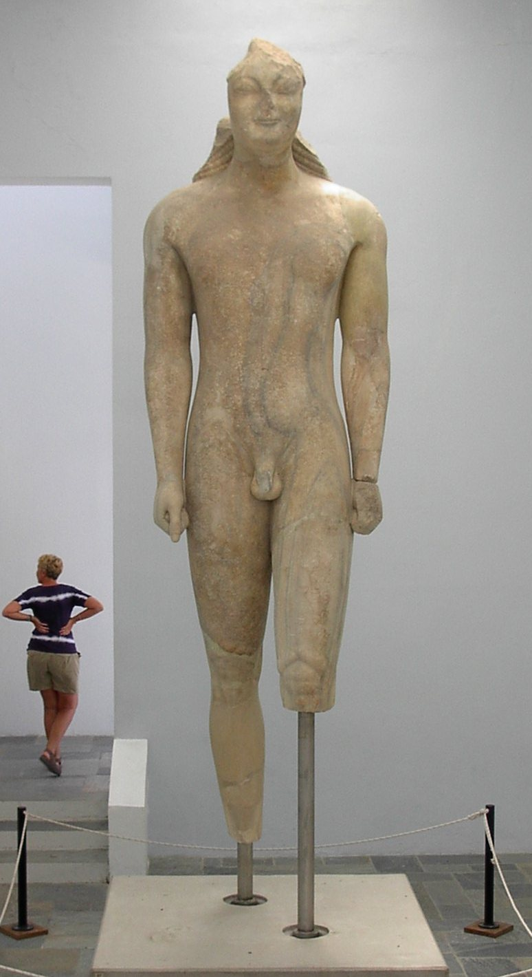 Photo taken in Samos in May 2002 by User:Adam Carr